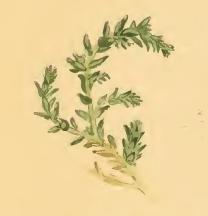 Stainton’s Natural History of the Tineina (1855–1873): Glyphipterix equitella sprig of Sedum acre with mined leaves